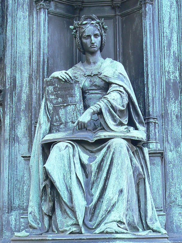 Personification of the Faculty of Law (decoration of the western face of the pedestal of the statue of Charles IV, Holy Roman Emperor; Křižovnické Square, Prague, Czechia, sculpted by Ernst Hähnel)